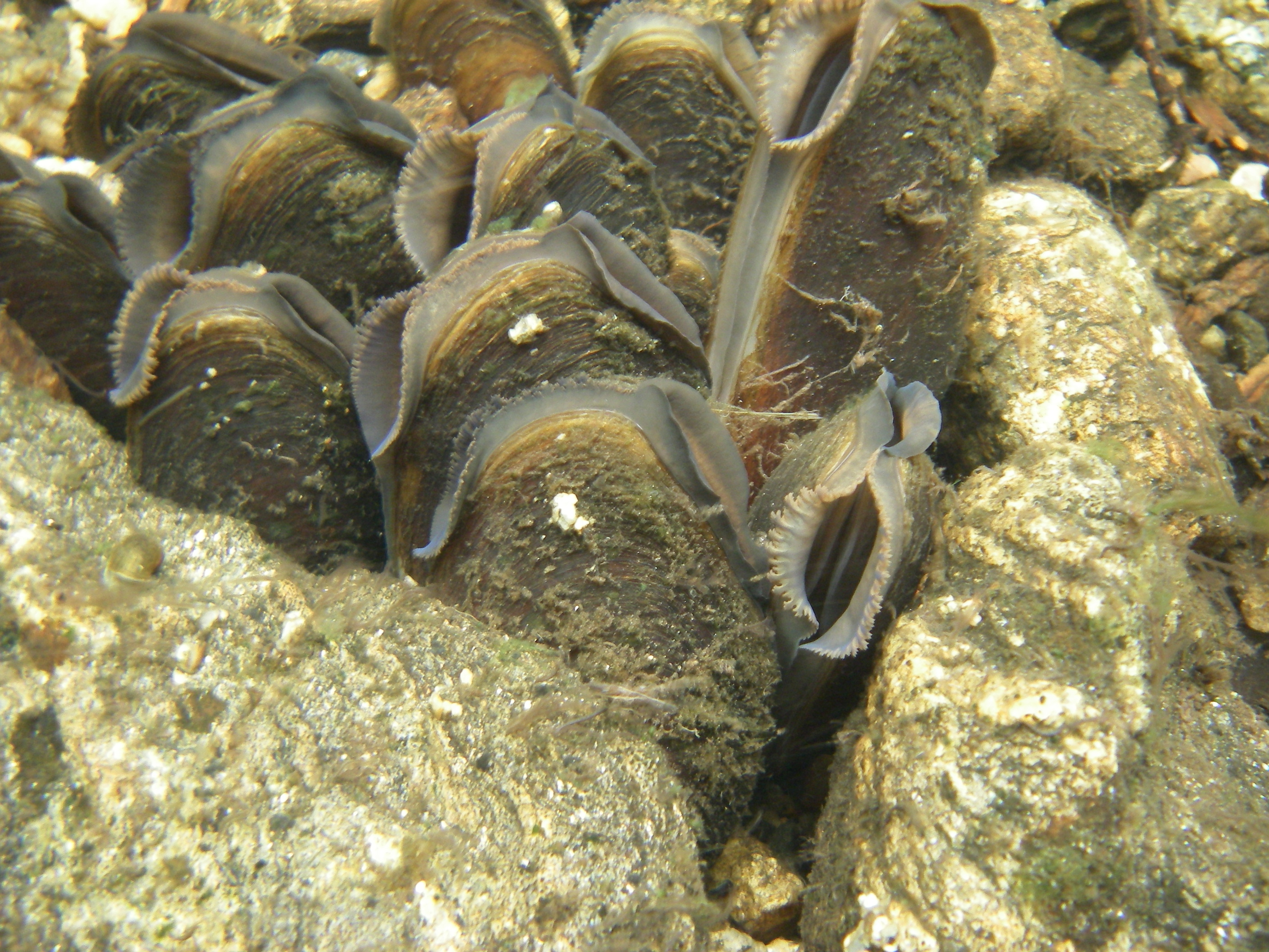 Freshwater pearl mussel (Margaritifera margaritifera), Swedish "Flodpärlmussla", from the river Navarån, Västernorrland, Sweden.